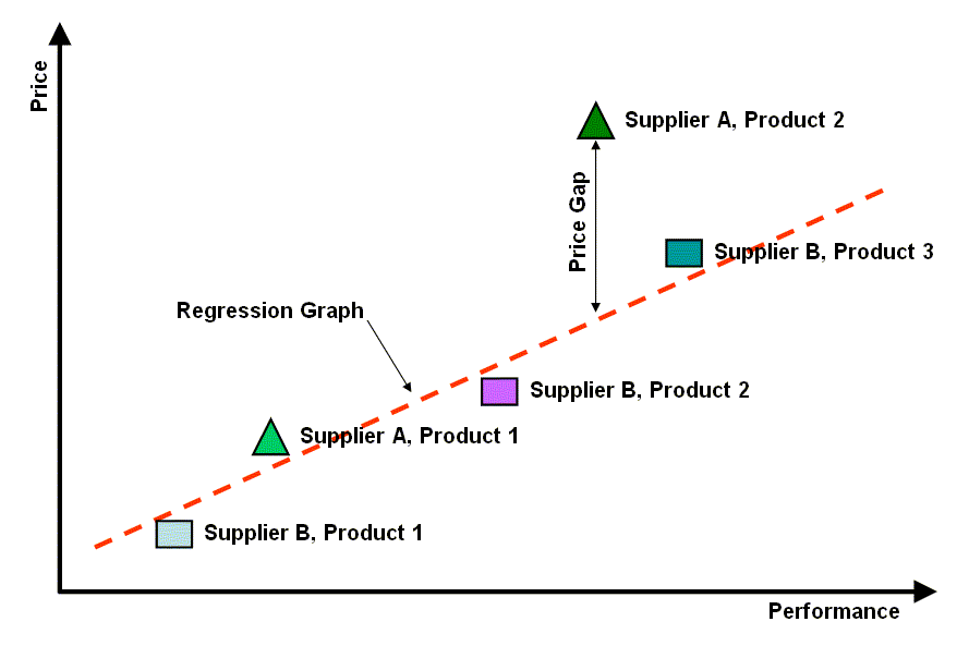 Example Linear Performance Pricing Chart